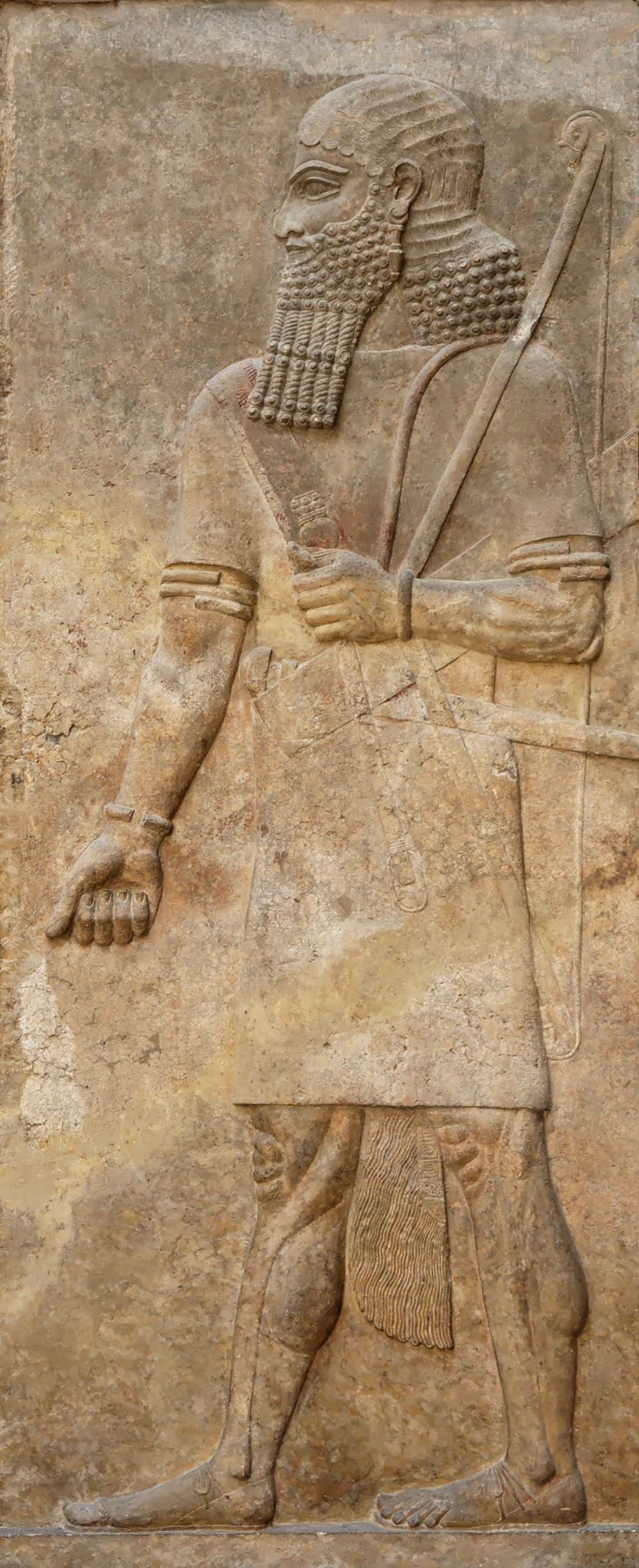 Warrior armed with a bow. Relief from the room N°8, Palace of Sargon II at Khorsabad (Dur Sharrukin), 713–706 BCE.